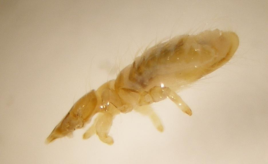 Strigiphilus sp. (?) collected from a Ural Owl, lateral view